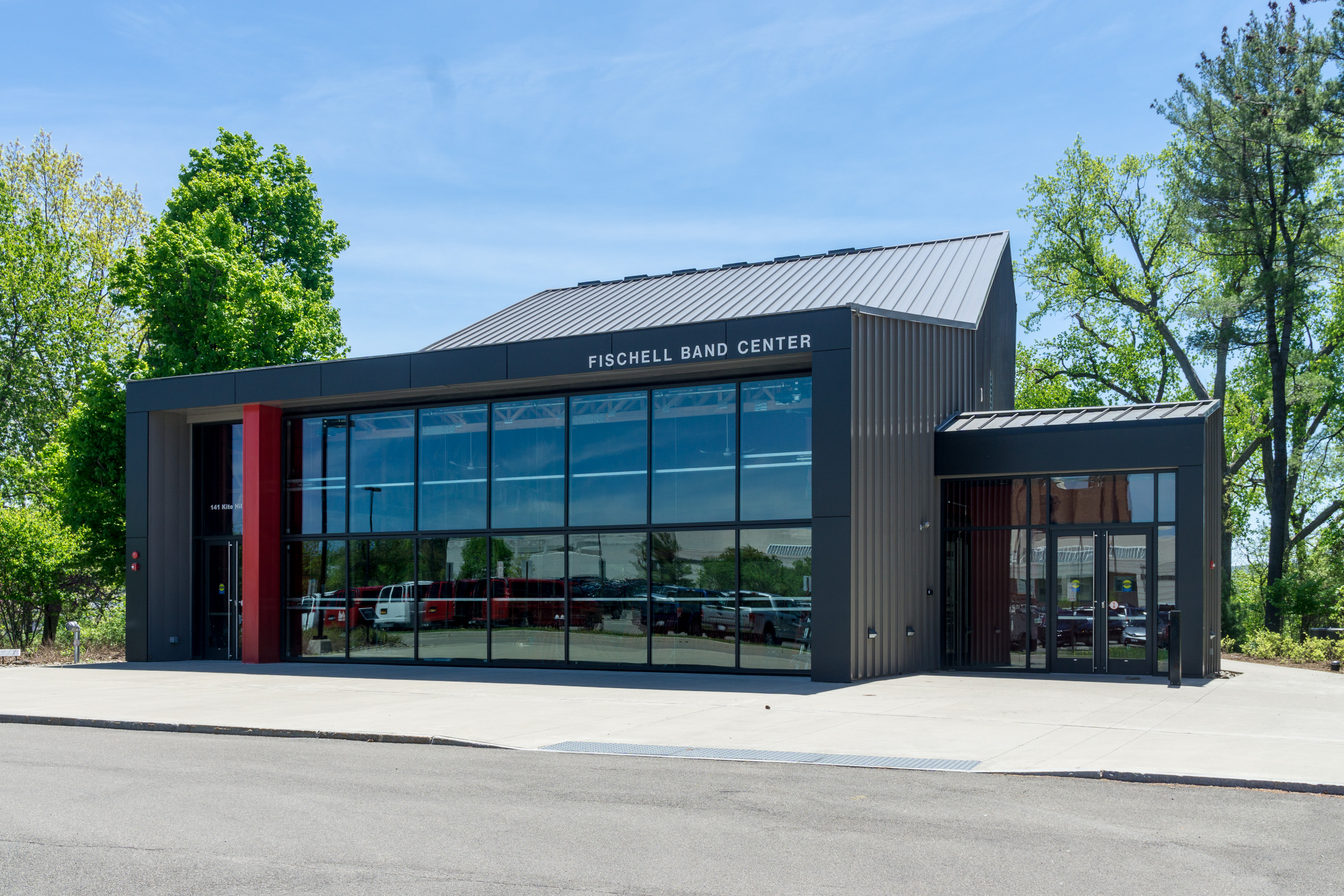 Fischell Band Center at Cornell University, Ithaca, NY. Purpose-built for the Big Red Marching Band. Located immediately outside Schoellkopf Crescent on Kite Hill. Designed by Baird Sampson Neuert Architects of Toronto. Opened 2013.